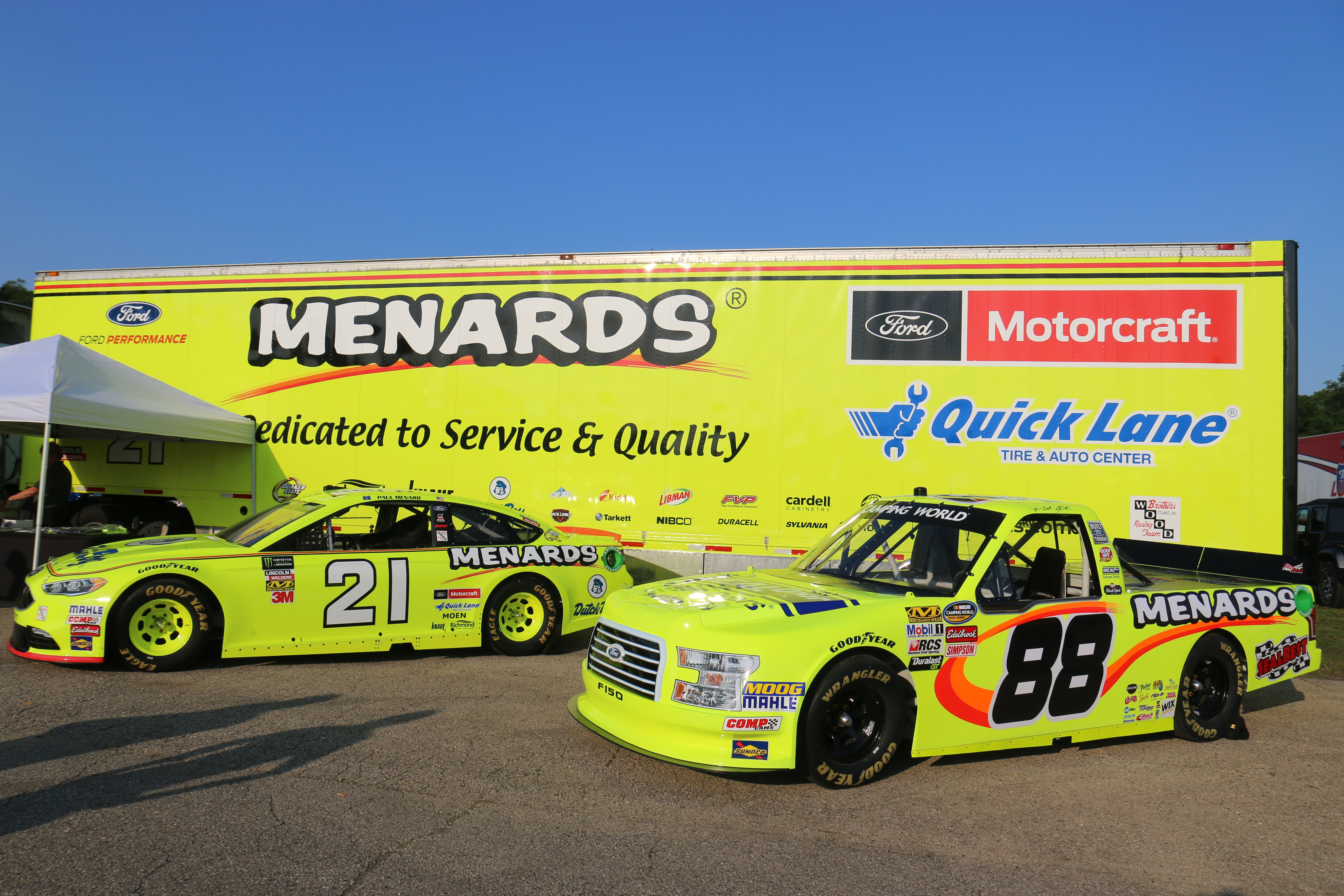 The #21 NASCAR Monster Energy Cup car of Paul Menard and and #88 NASCAR Camping World Truck Series truck of Matt Crafton on display at Madison International Speedway's ARCA race.